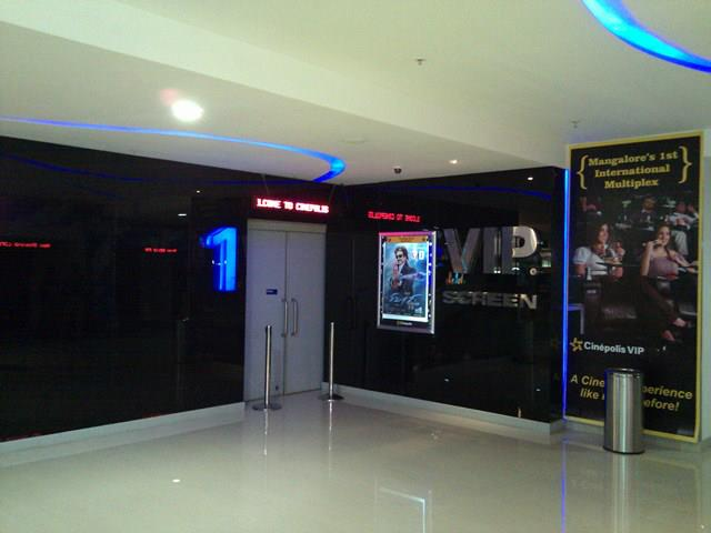 The First Cinepolis India VIP Screen.